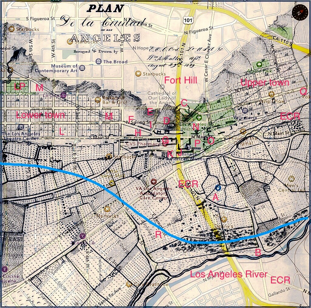 This is a map of old Los Angeles from Ord's survey map of 1849, overlaying modern features and labeled to show historical points of interest.